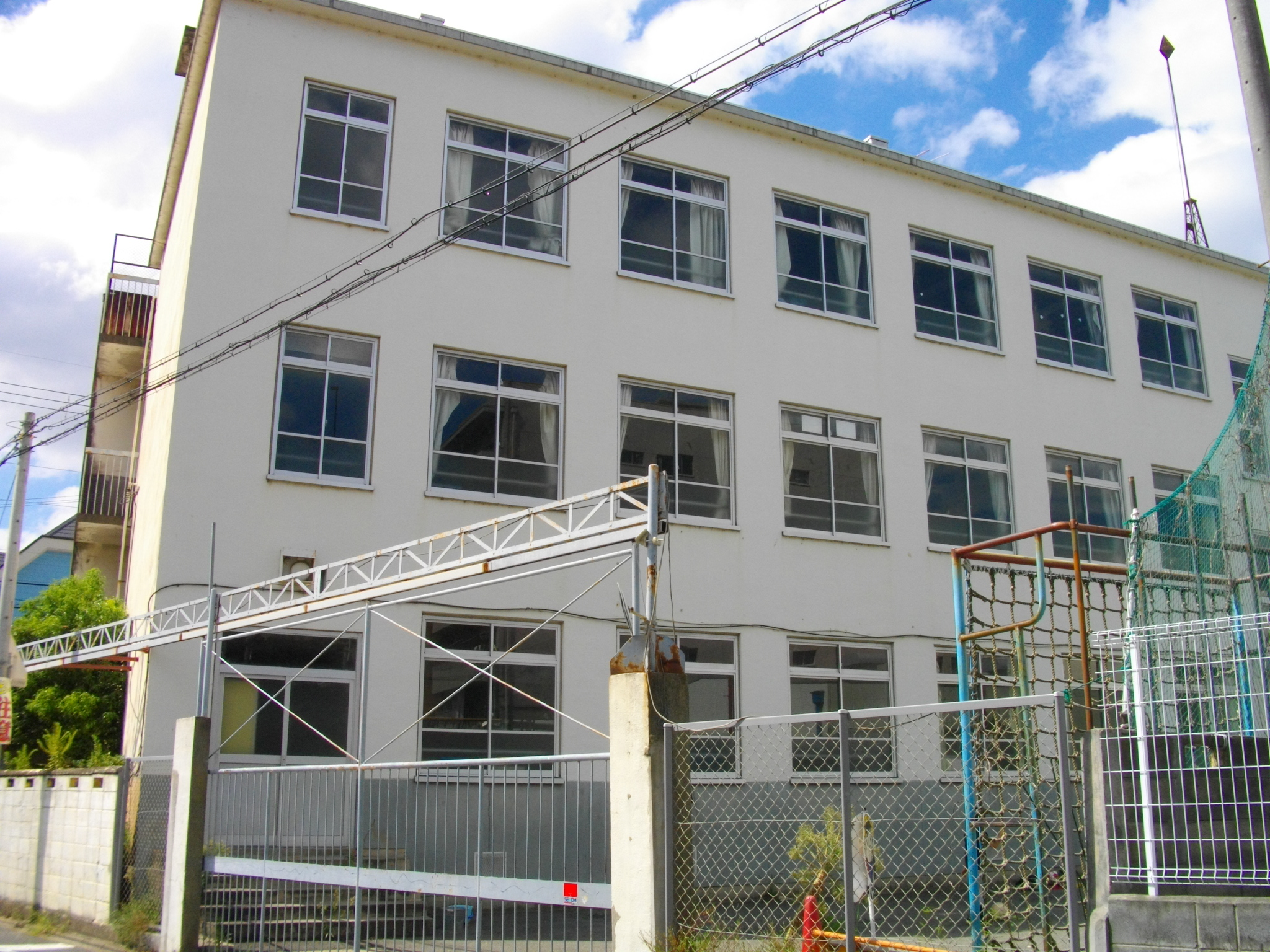 Kyoto Korean 1st Elementary School